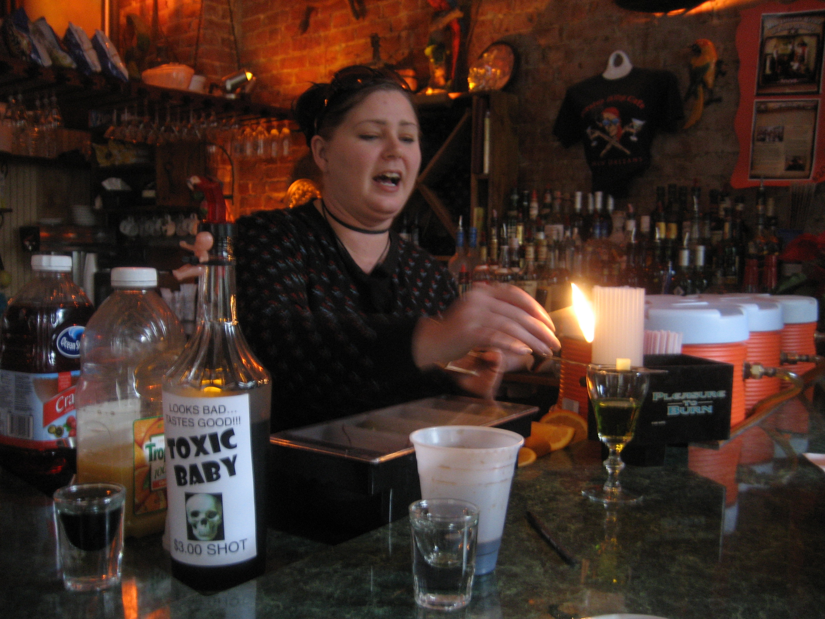 Bartender lighting the sugar cube while preparing an absinthe cocktail. Pirates Alley bar at the corner of Pirate's and Cabildo Alleys in the French Quarter, New Orleans.